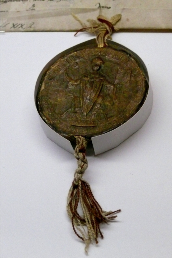 Albert I of Kafenburg